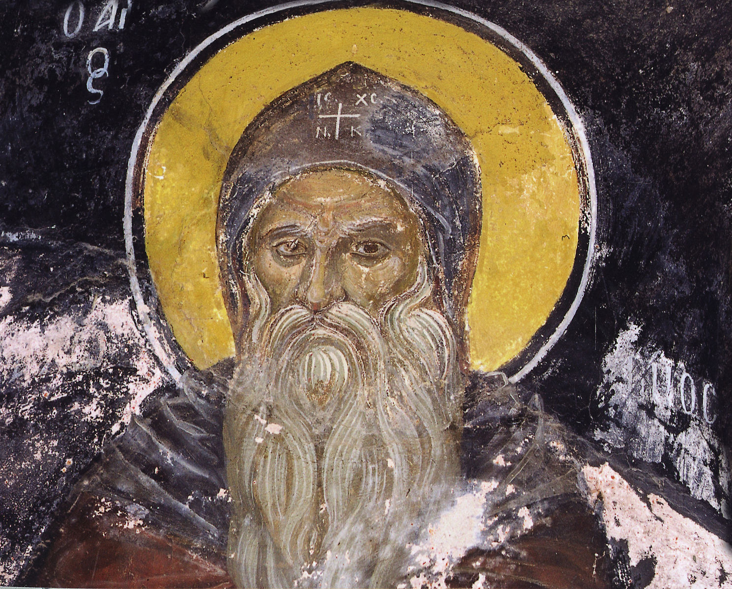 Orthodox Christian image Pambo of Nitria